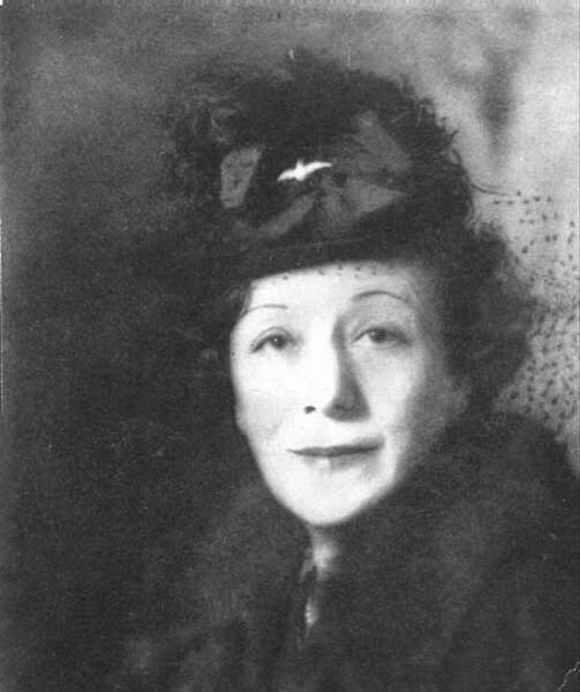 Vera Weizmann portrait